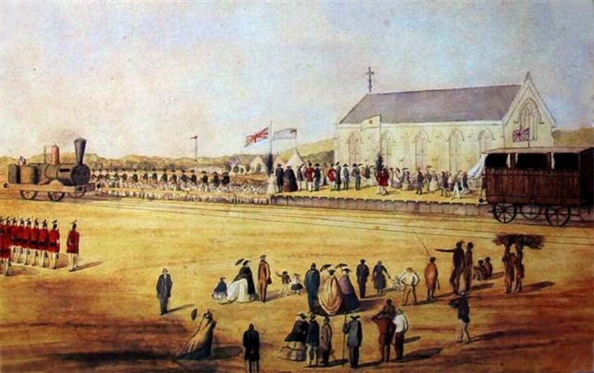 Official Opening Ceremony van die Durban-Point railway, Durban Market Square - 26th June 1860. Copy of a painting by Robert Tatham (1824 - 1881) that is in the Durban Local History Museum.